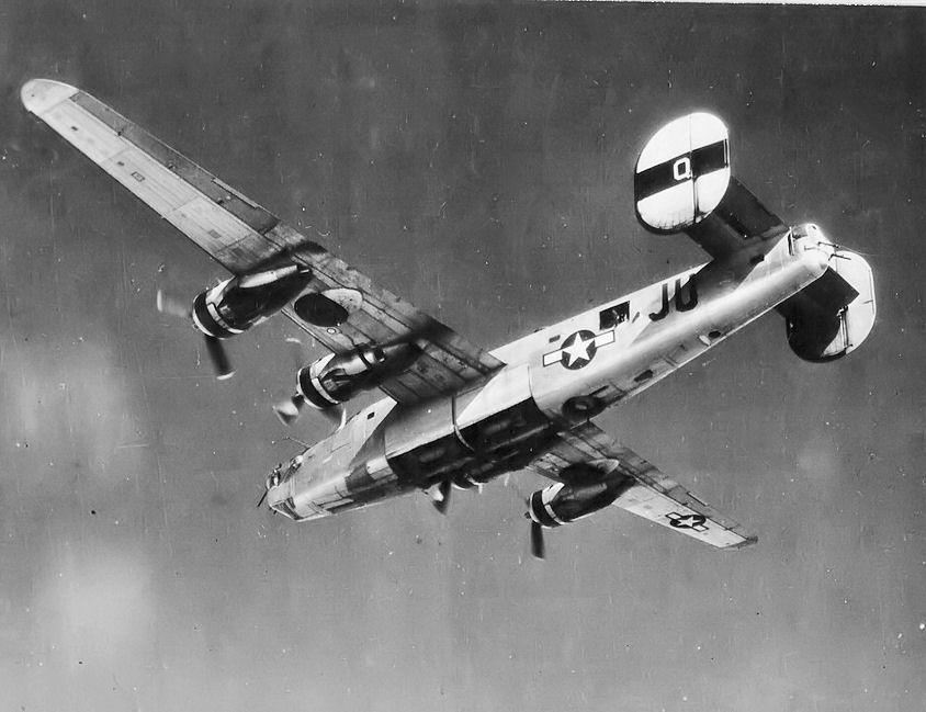 "Queenie" Ford-built B-24J-5-FO Liberator s/n 42-50773 A B-24 Liberator from the 707th Bomb Squadron, 446th Bomb Group, 8th Air Force on the bomb run over Aschaffenburg,Germany on Feb. 25,1945.